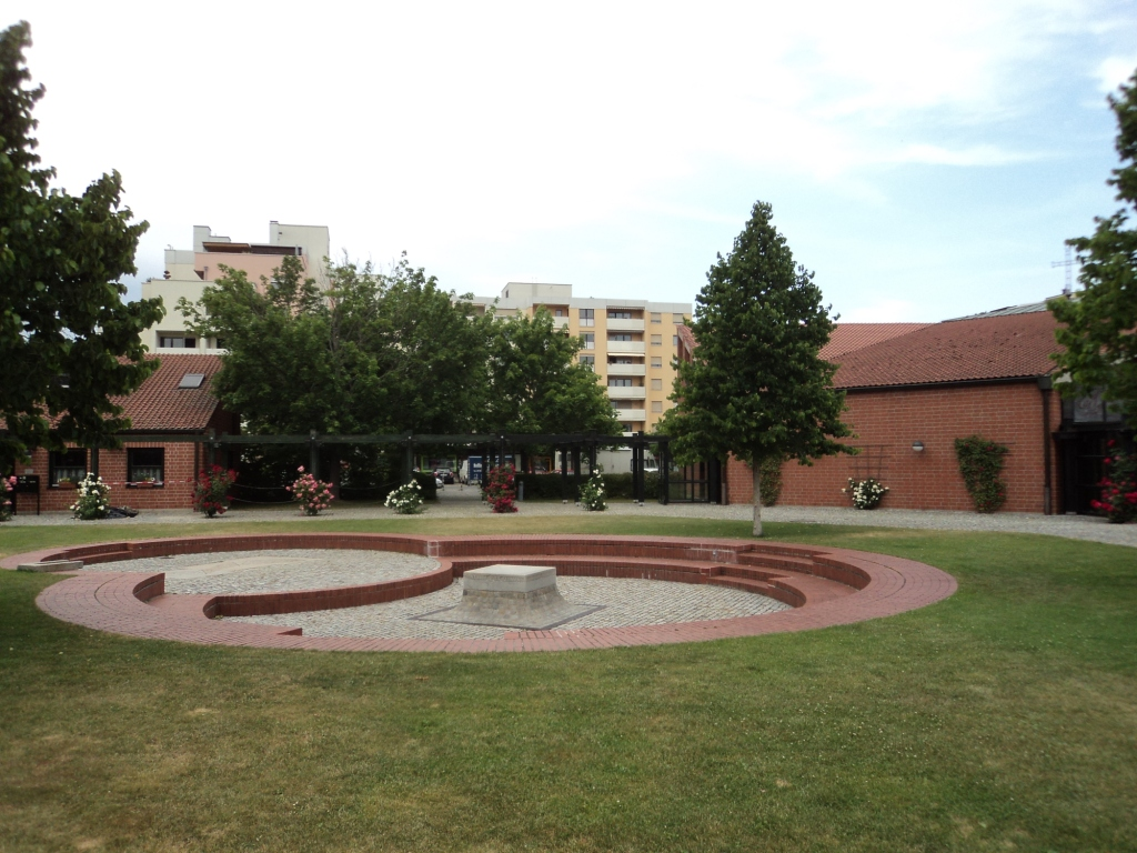 Inner courtyard of the oecumenic centre St. Clemens/St. Andreas in the northern part of Nuremberg; June 2019